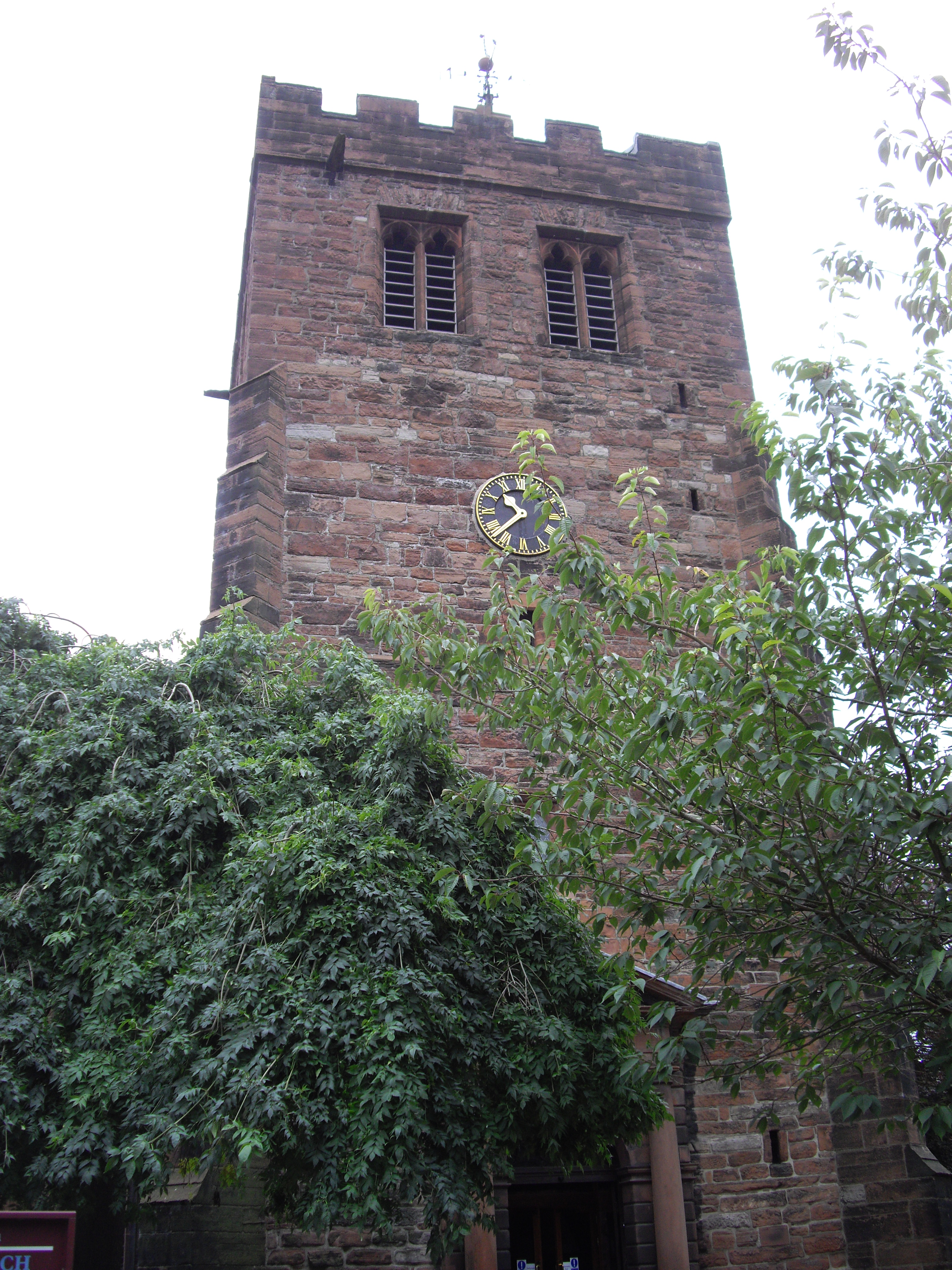 The tower of St Andrew's Church Penrith This tower is from the original 13th century church which stood on the site it has walls six feet thick